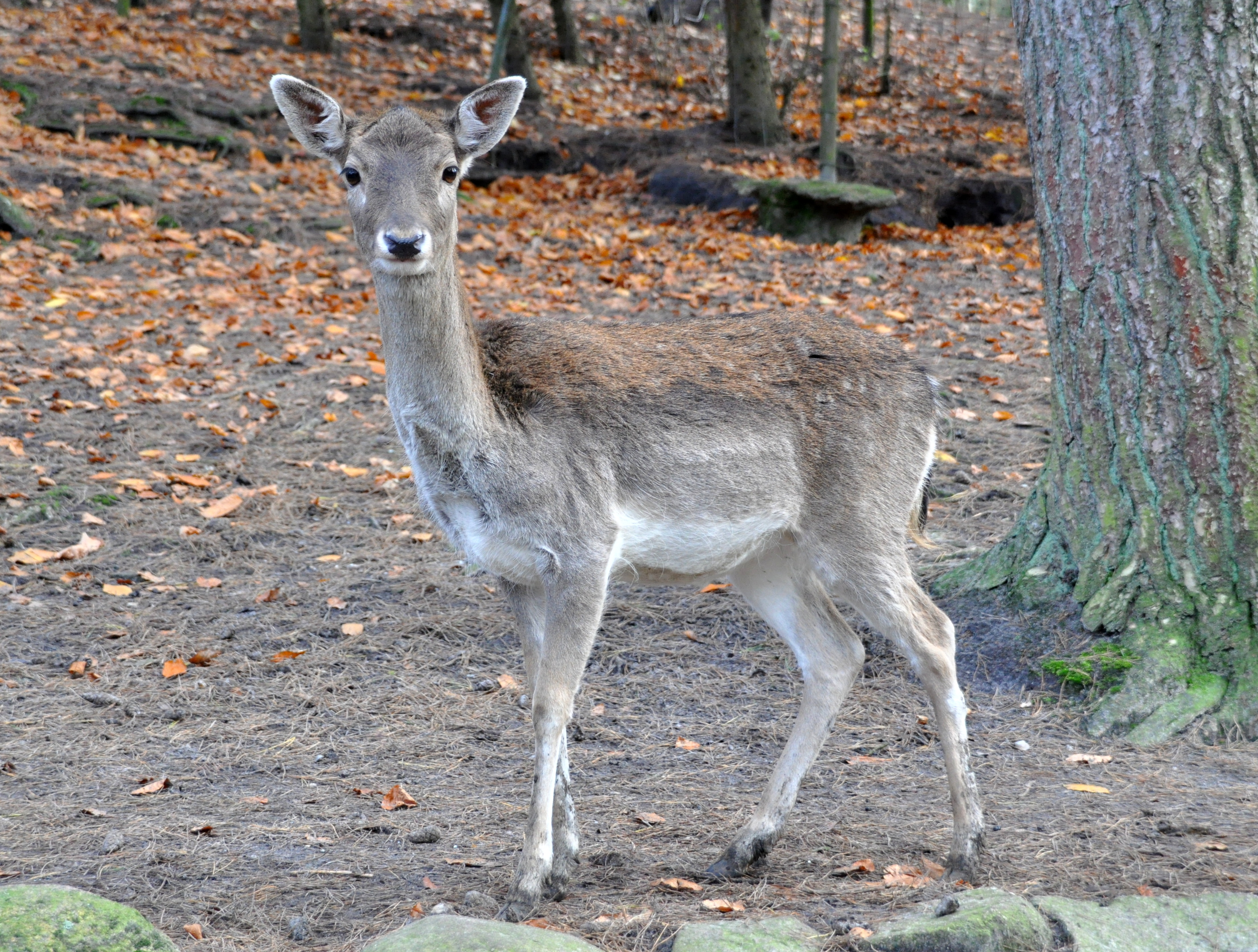 Fallow Deer (Dama dama) in the Lüneburg Heath wildlife park, Germany.